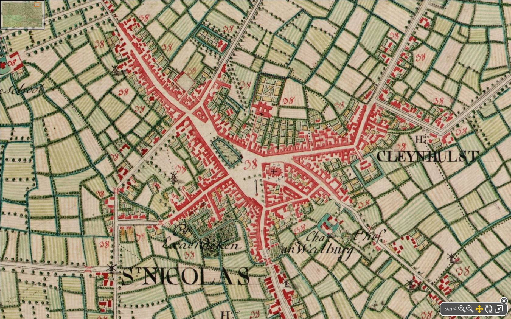 Sint-Niklaas,_Belgium,_Ferrariskaart,_1775.jpg